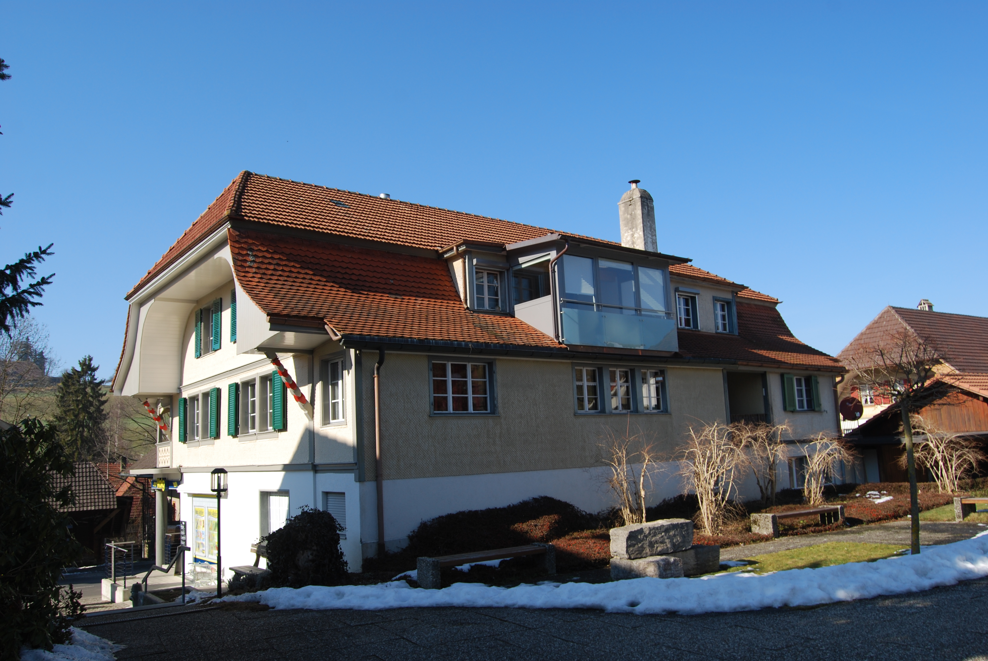 Eriswil, canton of Bern, SwitzerlandEsperanto: Eriswil, Kantono Berno, Svislando